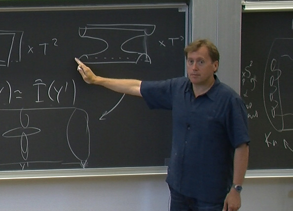 Tomasz Mrowka during one of the lectures at his 2011 master class at QGM in Aarhus. The picture is a snapshot from one of the video recordings from the master class.